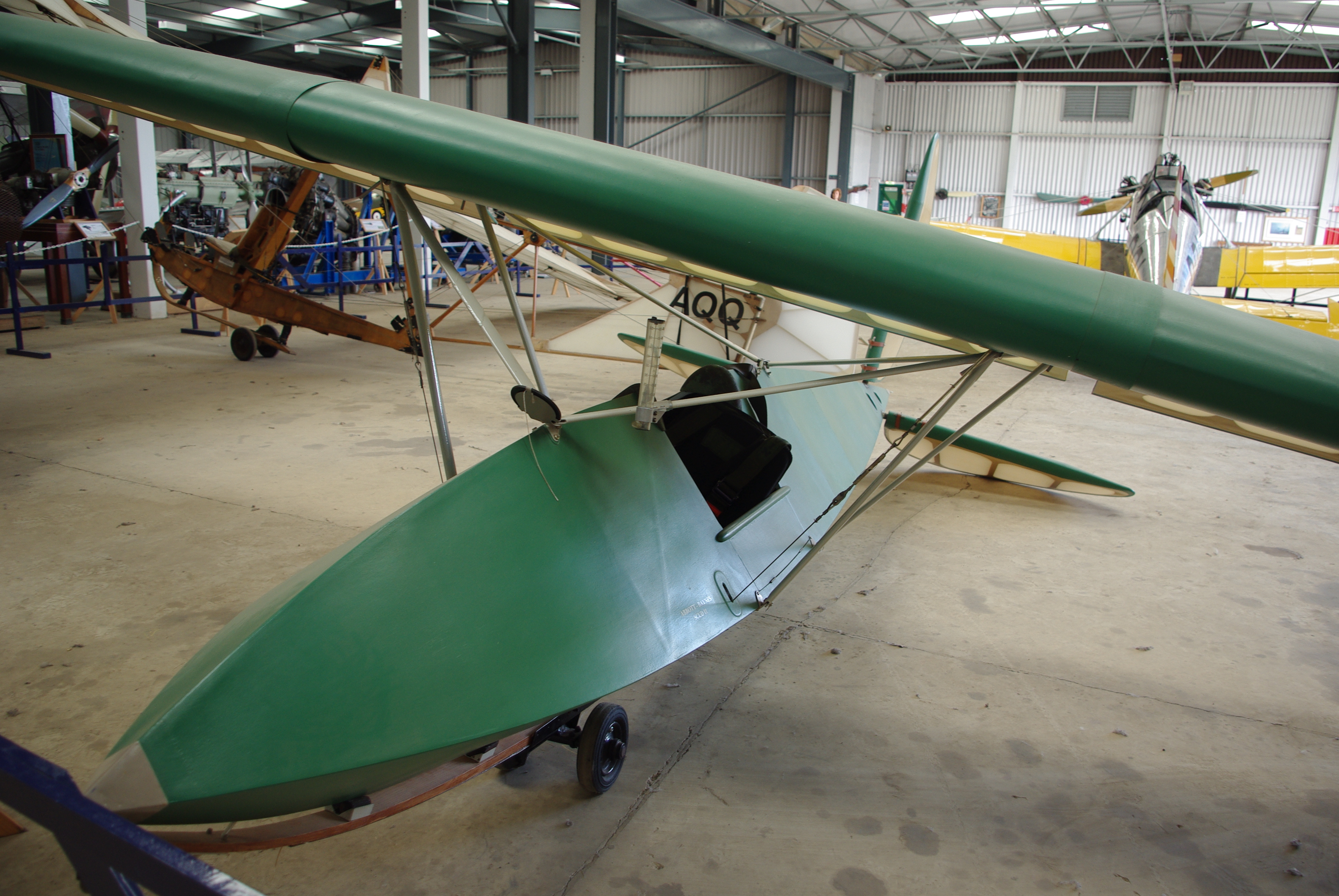 Abbot-Baynes Scud II, Shuttleworth Collection